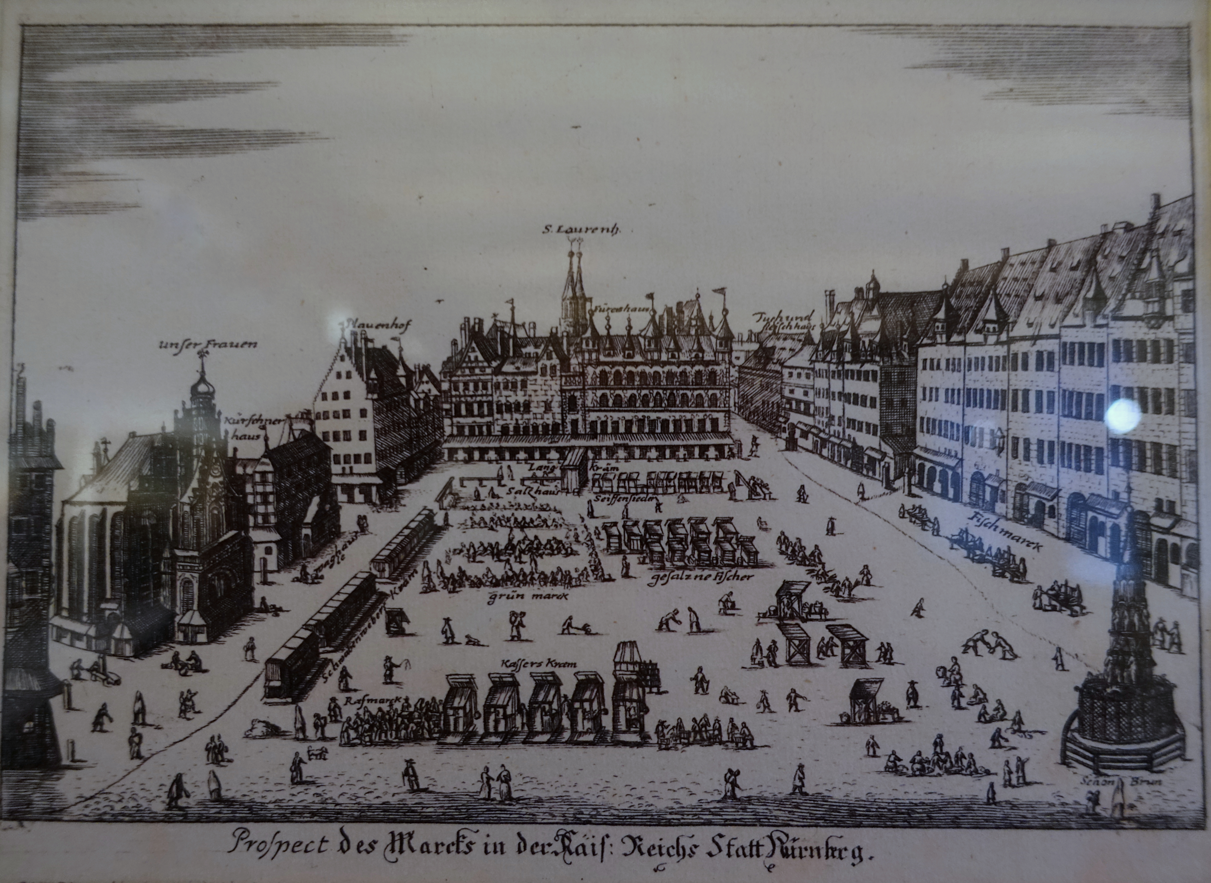 Exhibit in the Stadtmuseum Fembohaus - Nuremberg, Germany.